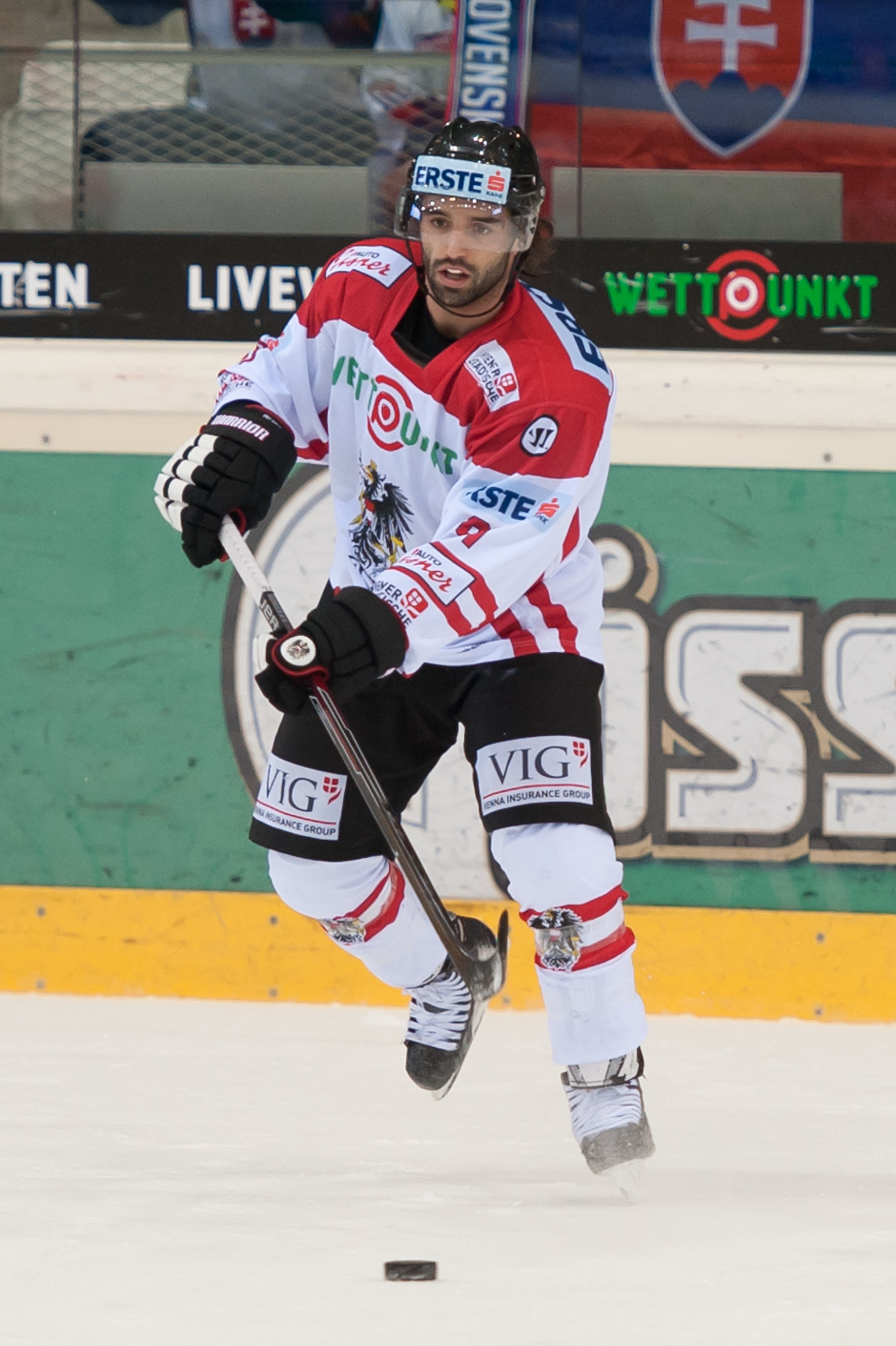 Euro Ice Hockey Challenge Vienna, February 7, 2015, Austria vs. Slovakia